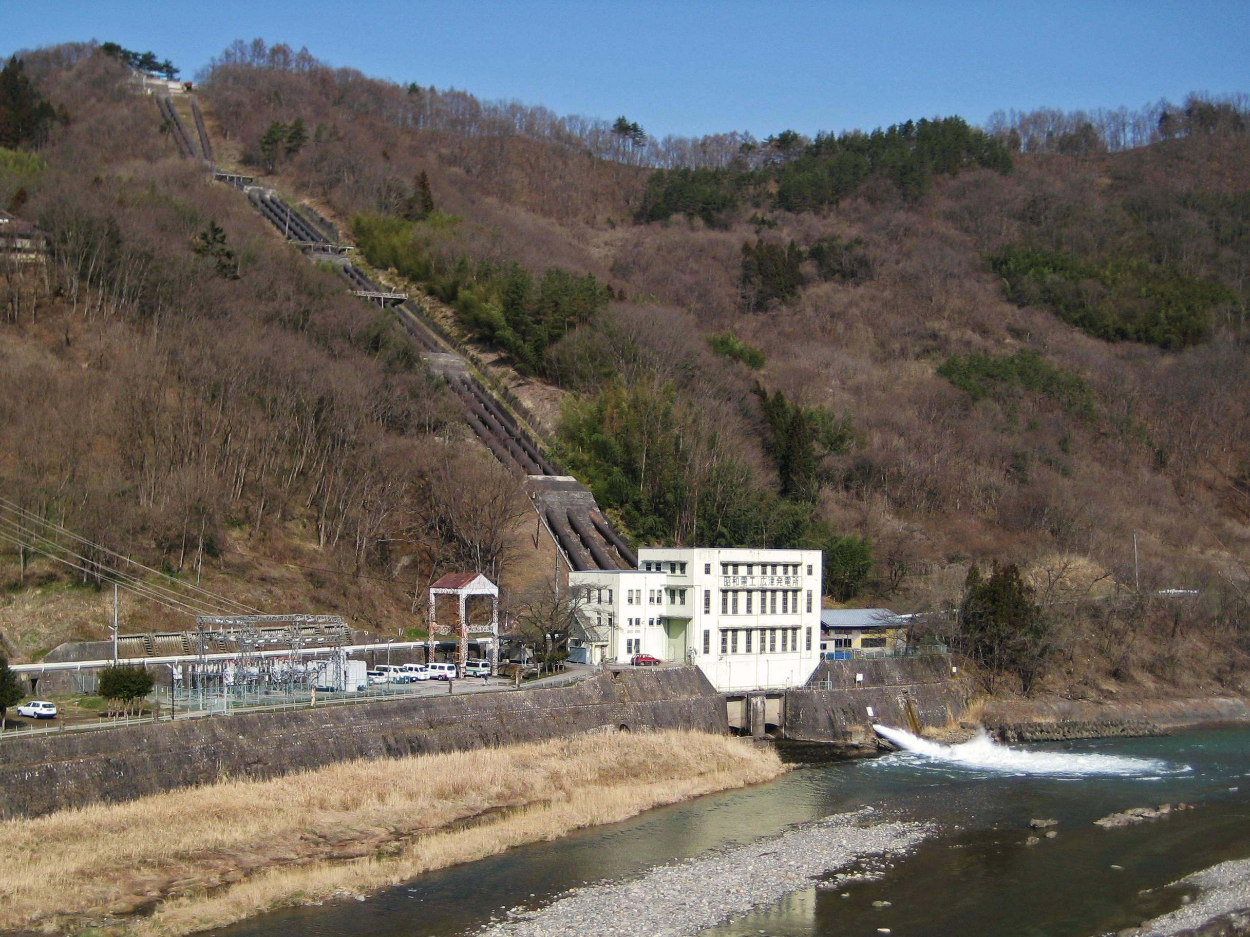 Hirotsu power station.